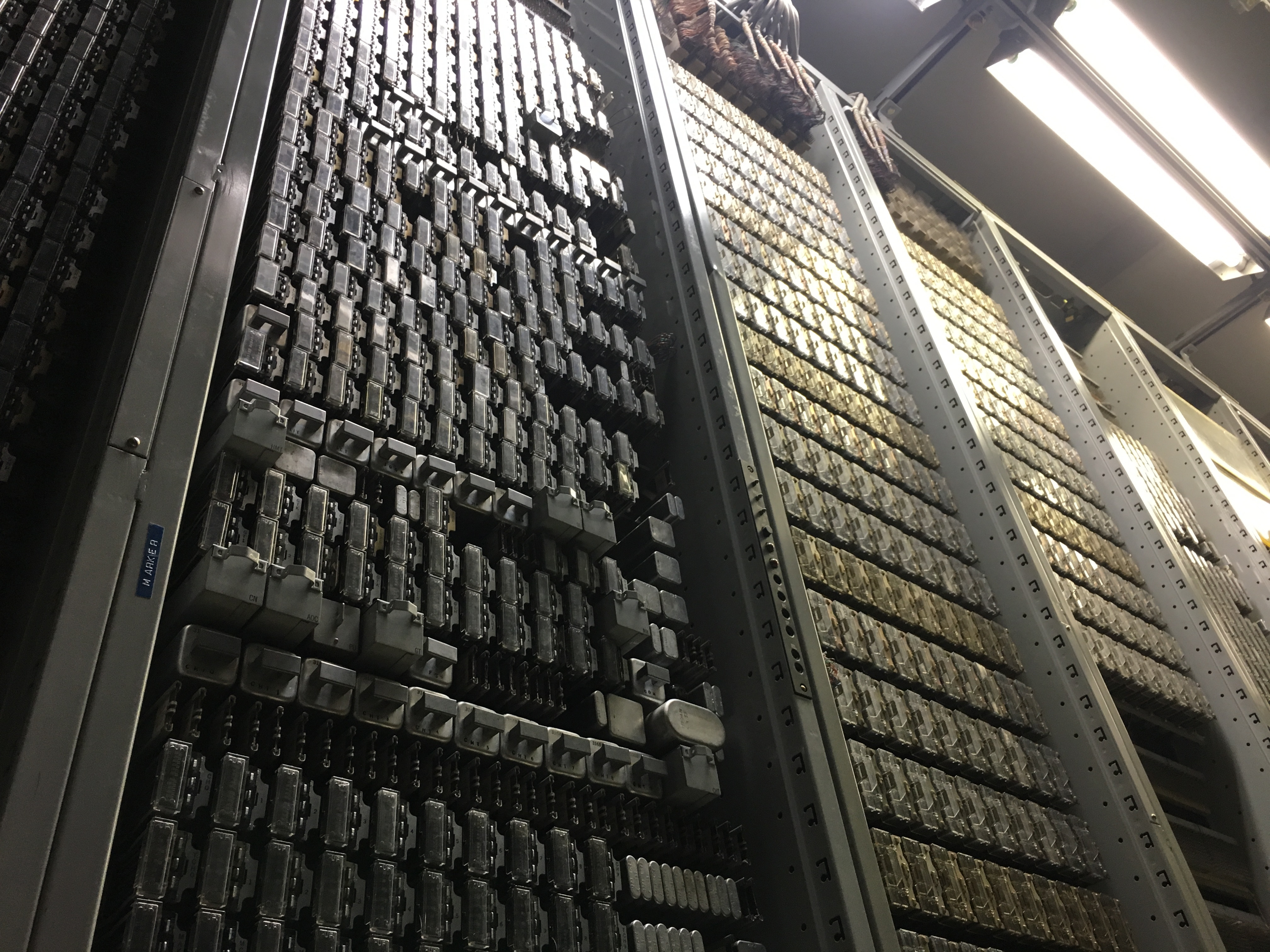 This is one of the Completing Markers in the No. 5 Crossbar switch, seen at the Connections Museum, in Seattle, WA. The frame on the left is part of the marker itself, and the frames to the right are connector frames, where incoming and outgoing connections are queued and directed as required.